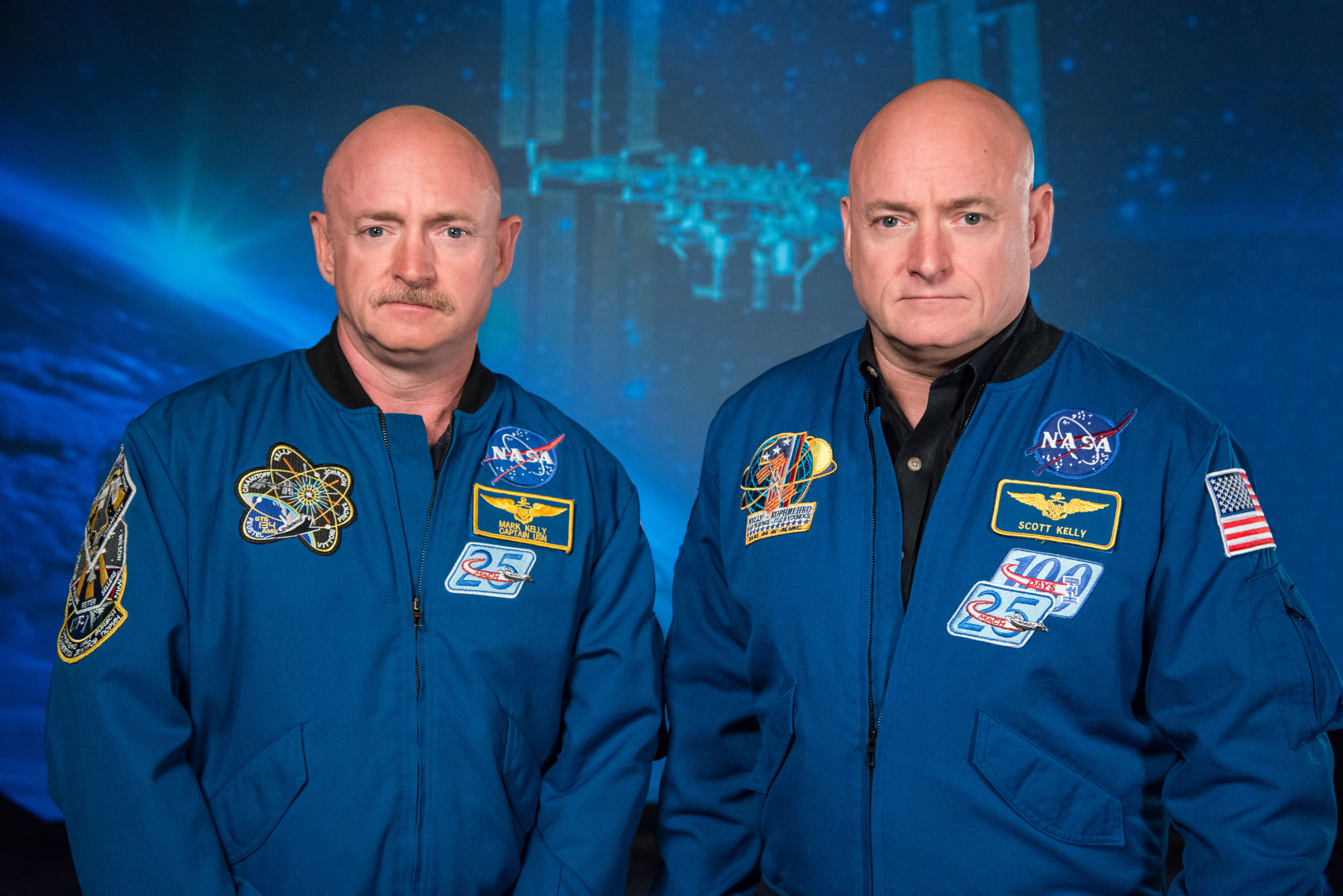 NASA Expedition 45/46 Commander, Astronaut Scott Kelly along with his brother, former Astronaut Mark Kelly at the Johnson Space Center, Houston Texas speak to news media outlets on Jan.19, 2015. The subject is Scott Kelly's upcoming 1-year mission aboard the International Space Station.